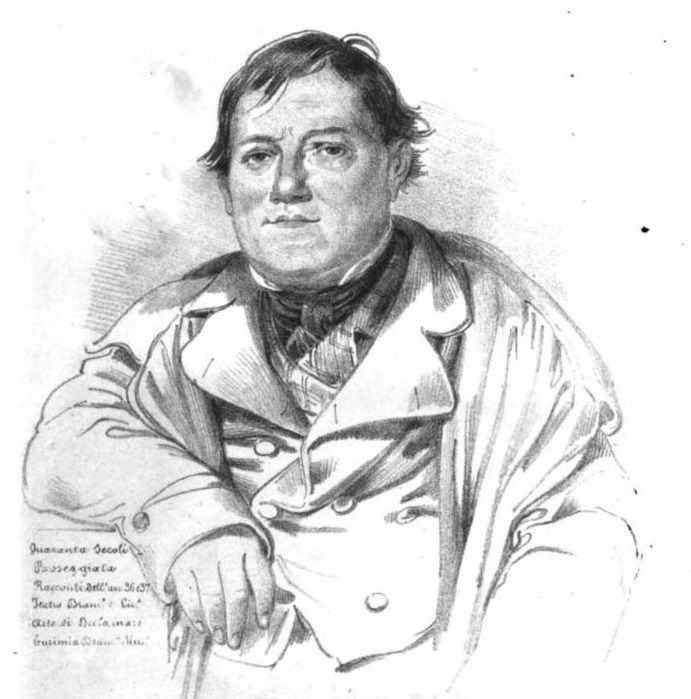 Portrait of the Italian writer Giovanni Emanuele Bidera (1784–1858)